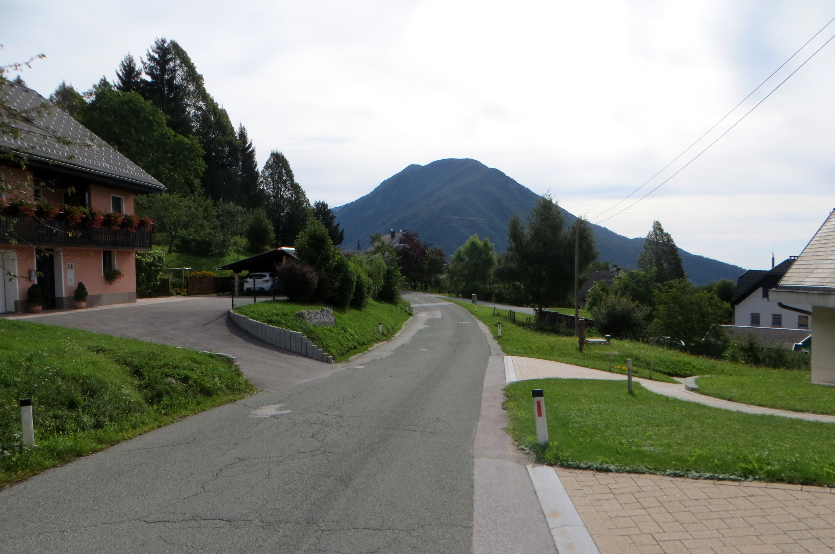 Brezje pri Tržiču, Municipality of Tržič, Slovenia